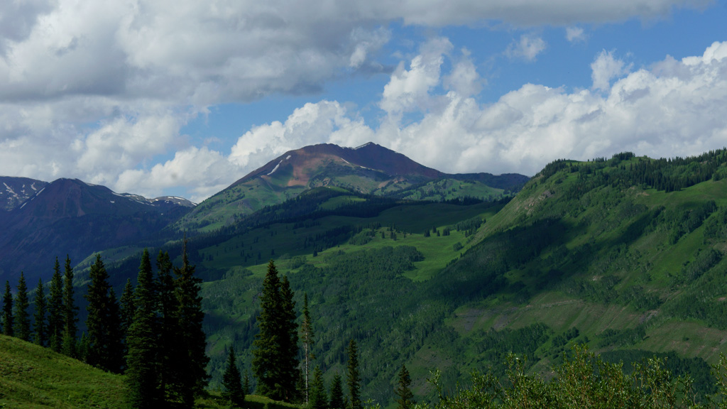 Mountains surrounding the area